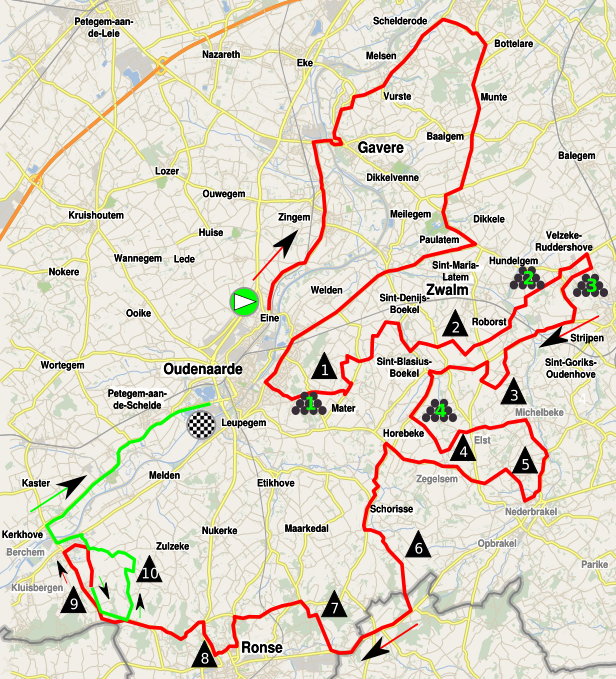 Map of the Ronde van Vlaanderen vrouwen 2014.